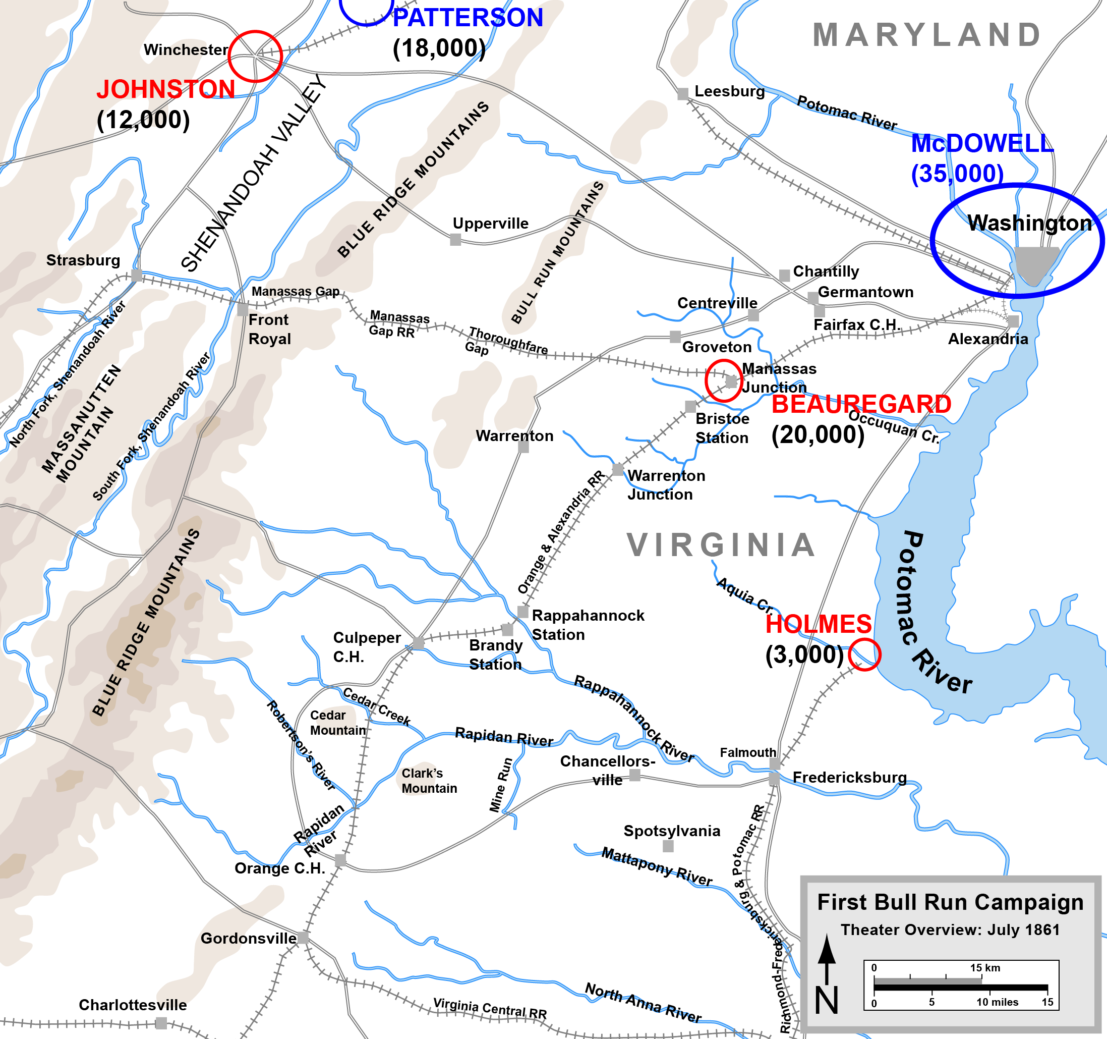 Map of the First Bull Run Campaign of the American Civil War. Drawn by Hal Jespersen in Adobe Illustrator CS5. Graphic source file is available at Hal Jespersen 23:45, 10 August 2007 (UTC)